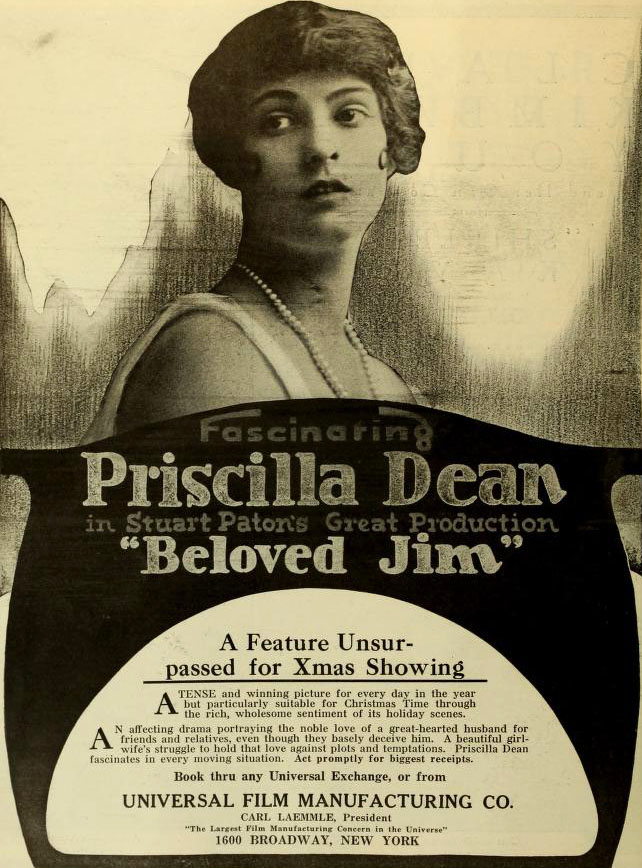 Advertisement in Moving Picture World, Dec. 1917 for the film Beloved Jim (1917).